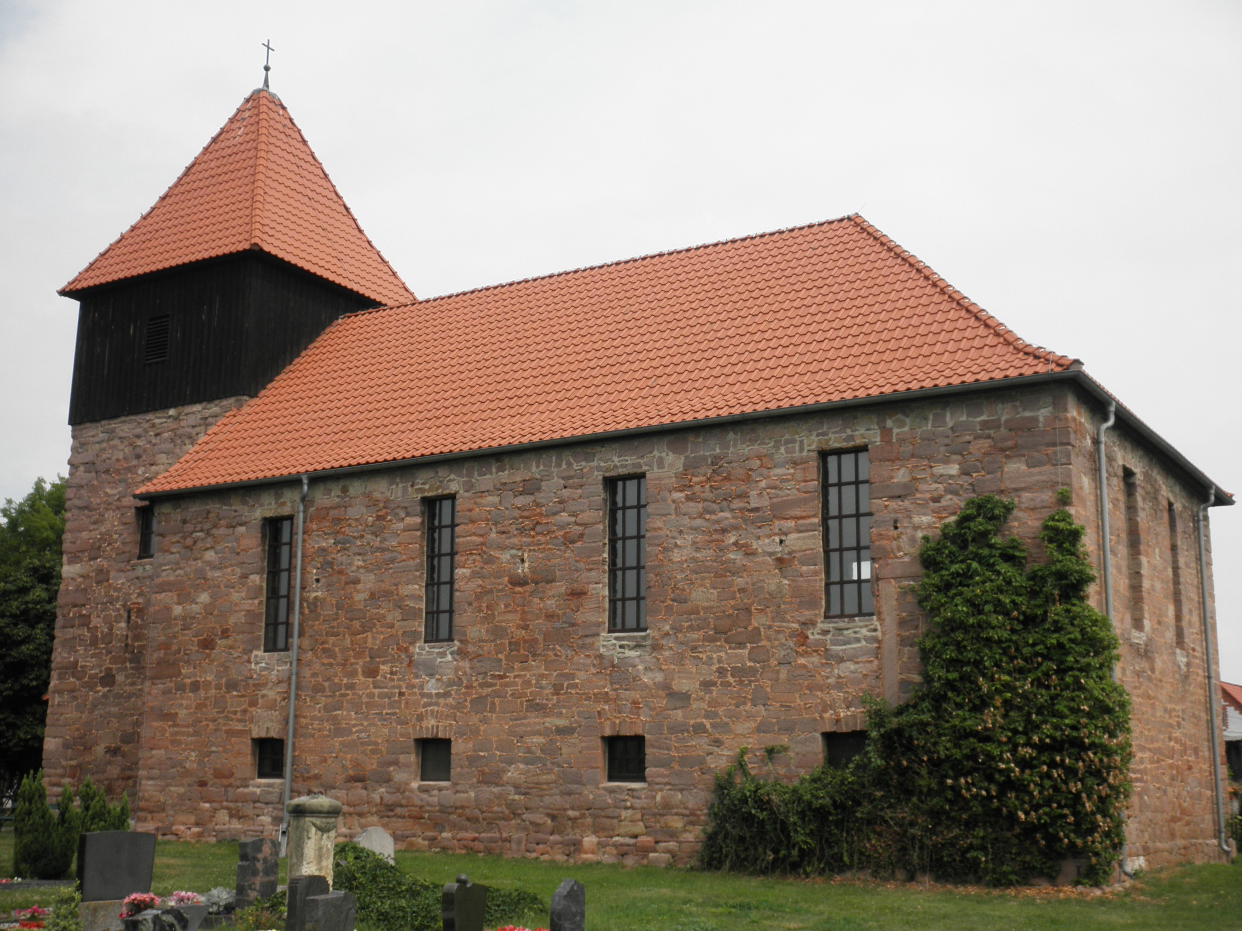 Borxleben (Thuringia) Church